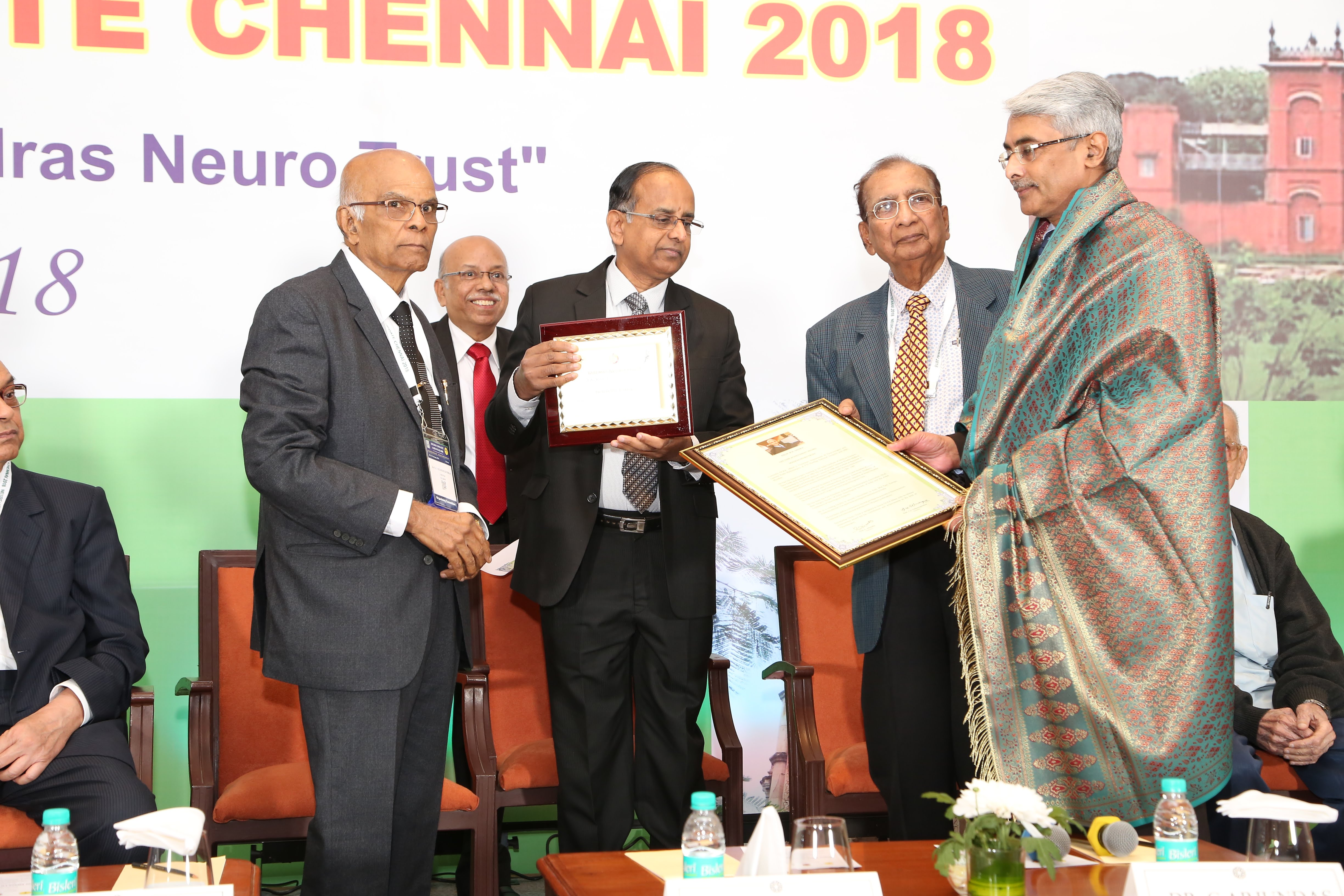 Dr. B. K. Misra receiving the Lifetime Achievement Award - 2018 by the Madras Neuro Trust